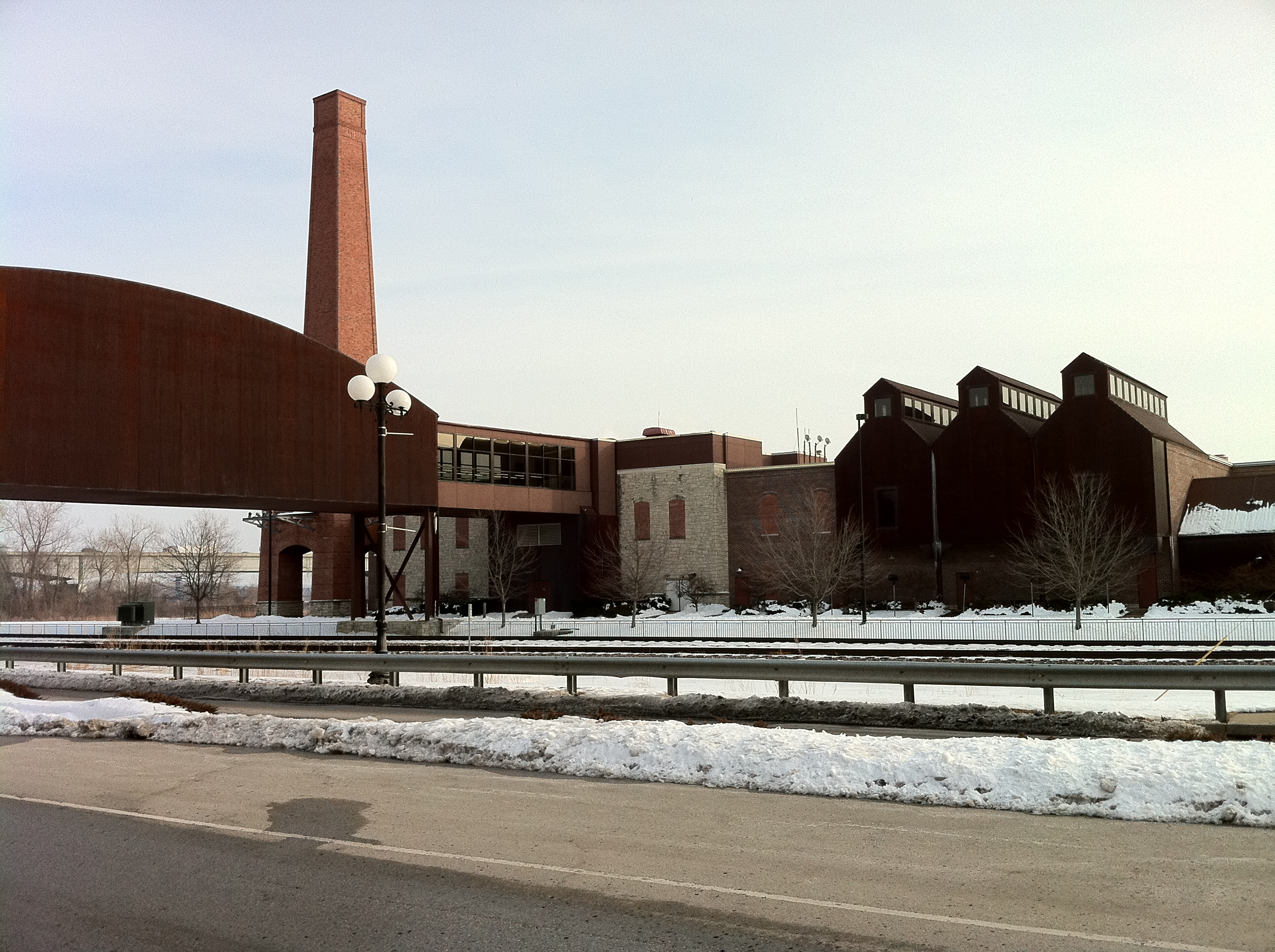 Former building of Sam's Town Kansas City